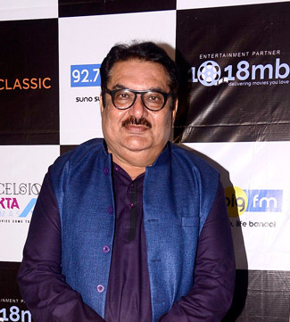 Raza Murad at the special screening of Ram Lakhan